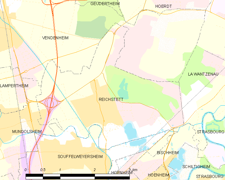 Map of French municipality